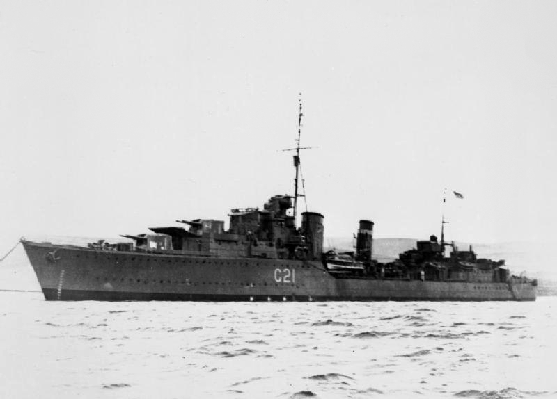 HMS Punjabi At anchor, coastal waters.